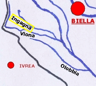 Ingagna creek location (BI, Italy)